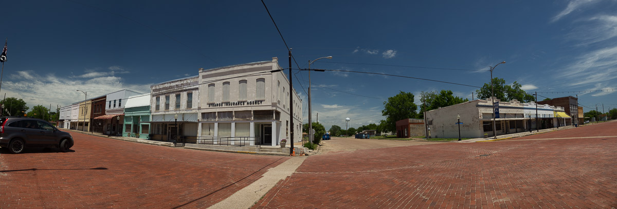 Old buildings in downtown Wortham, Texas.